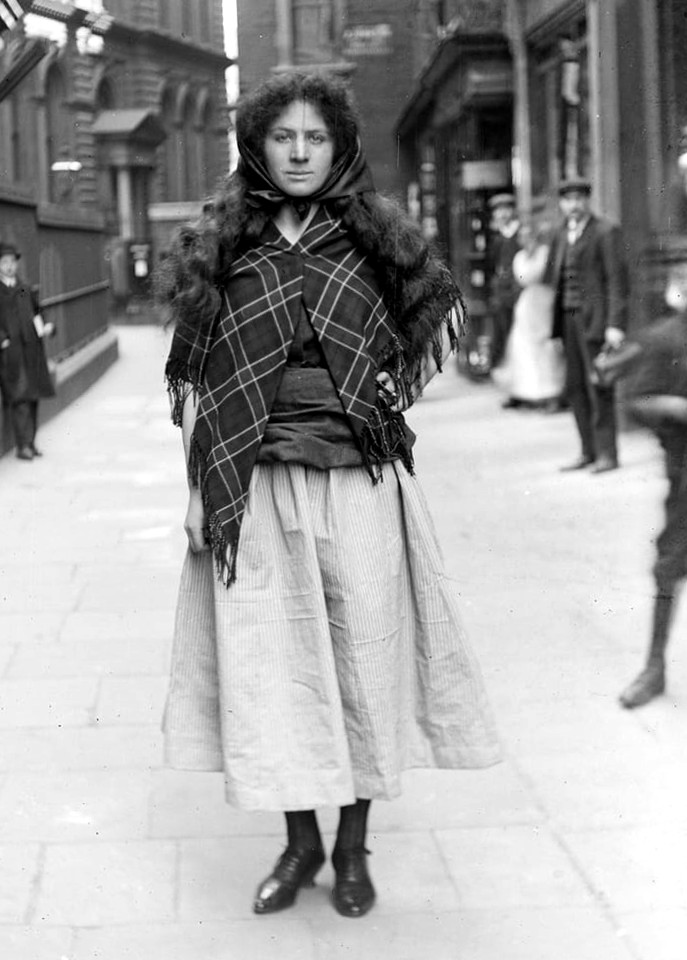 Barbara Ayrton-Gould dressed as a fisher girl representing Grace Darling, promoting the Women’s exhibition, May 1909. Photographs by Christina Broom who died in 1939.